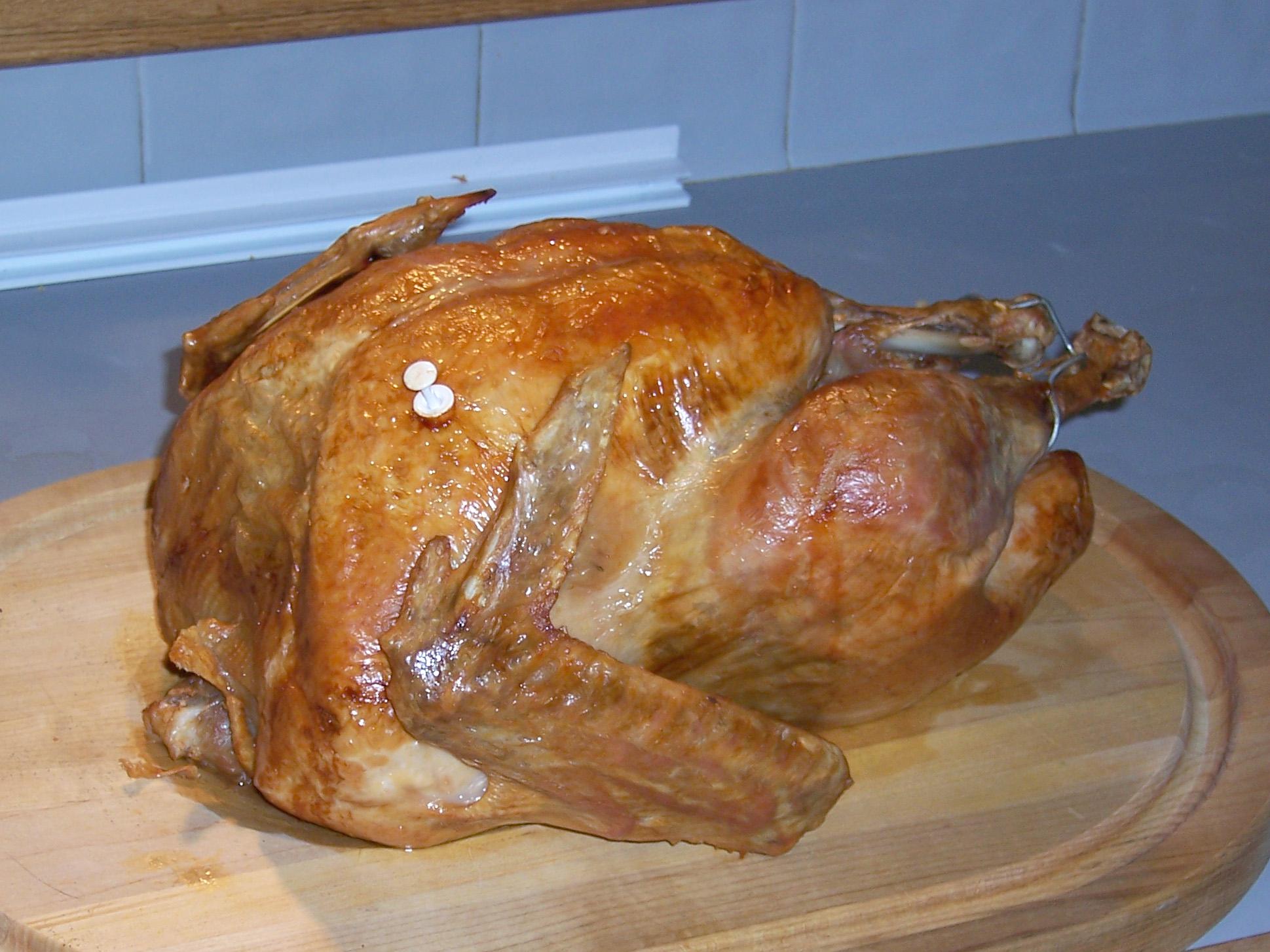 Thanksgiving Turkey: Just practicing for the main event.